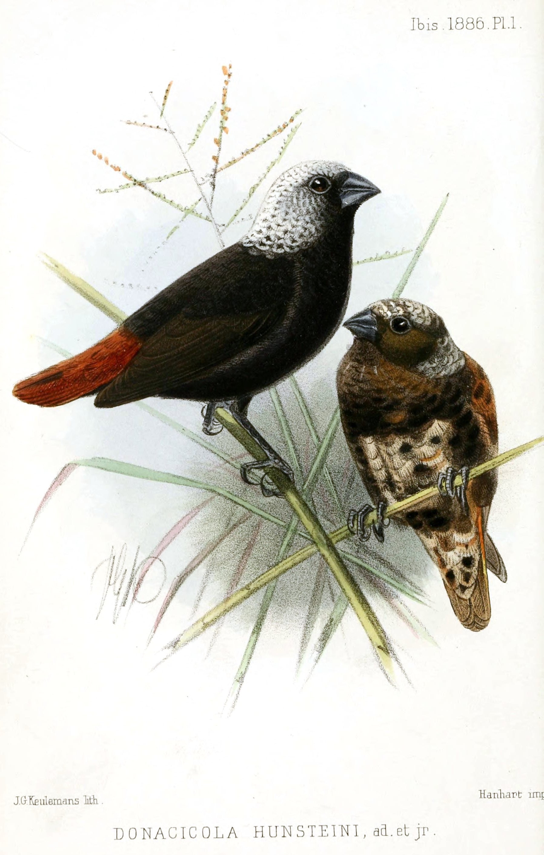 Lonchura hunsteini (originally labelled Donacicola hunsteini)